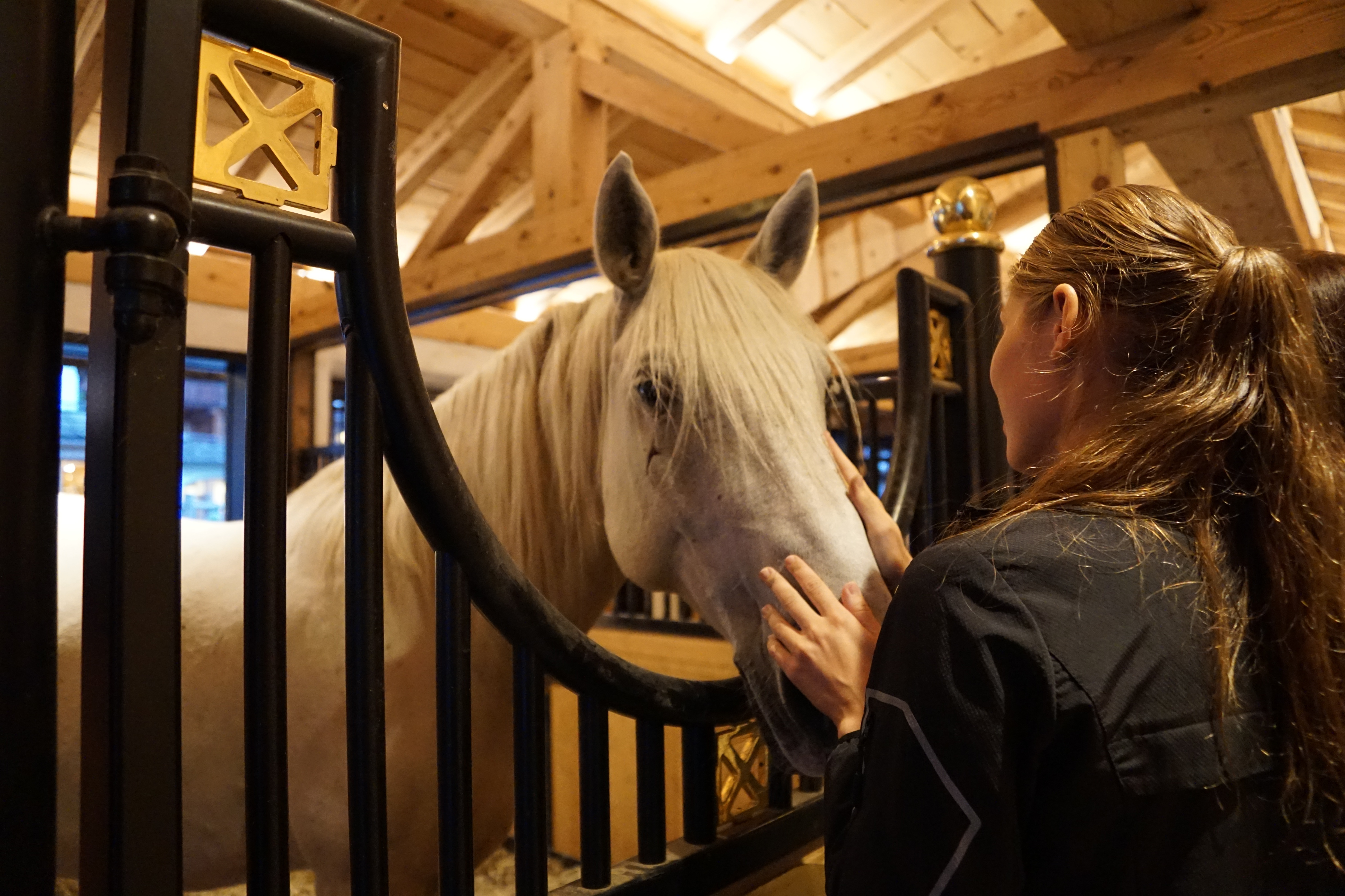 Lipica.